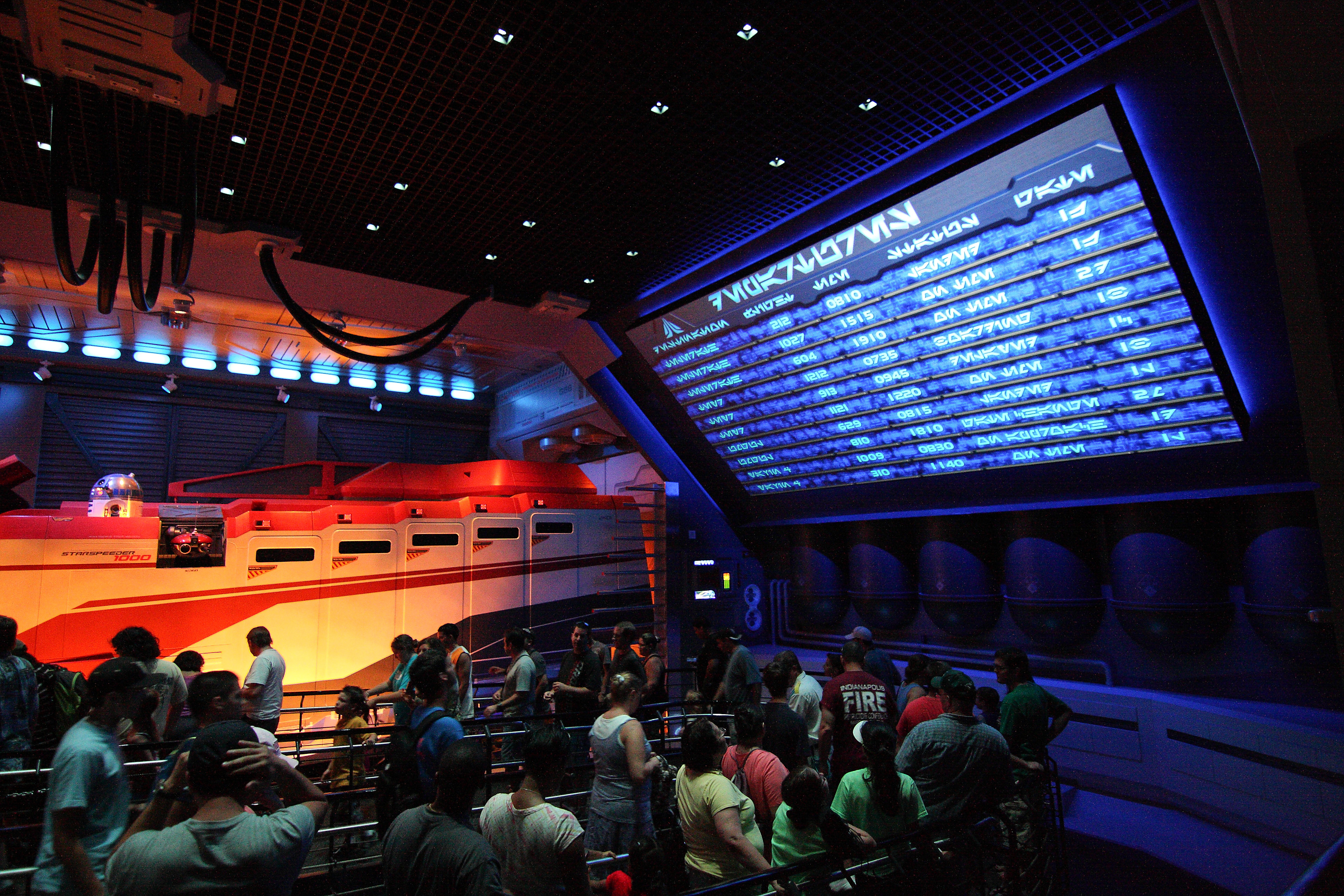 The space port for Star Tours at Disney's Hollywood Studios.